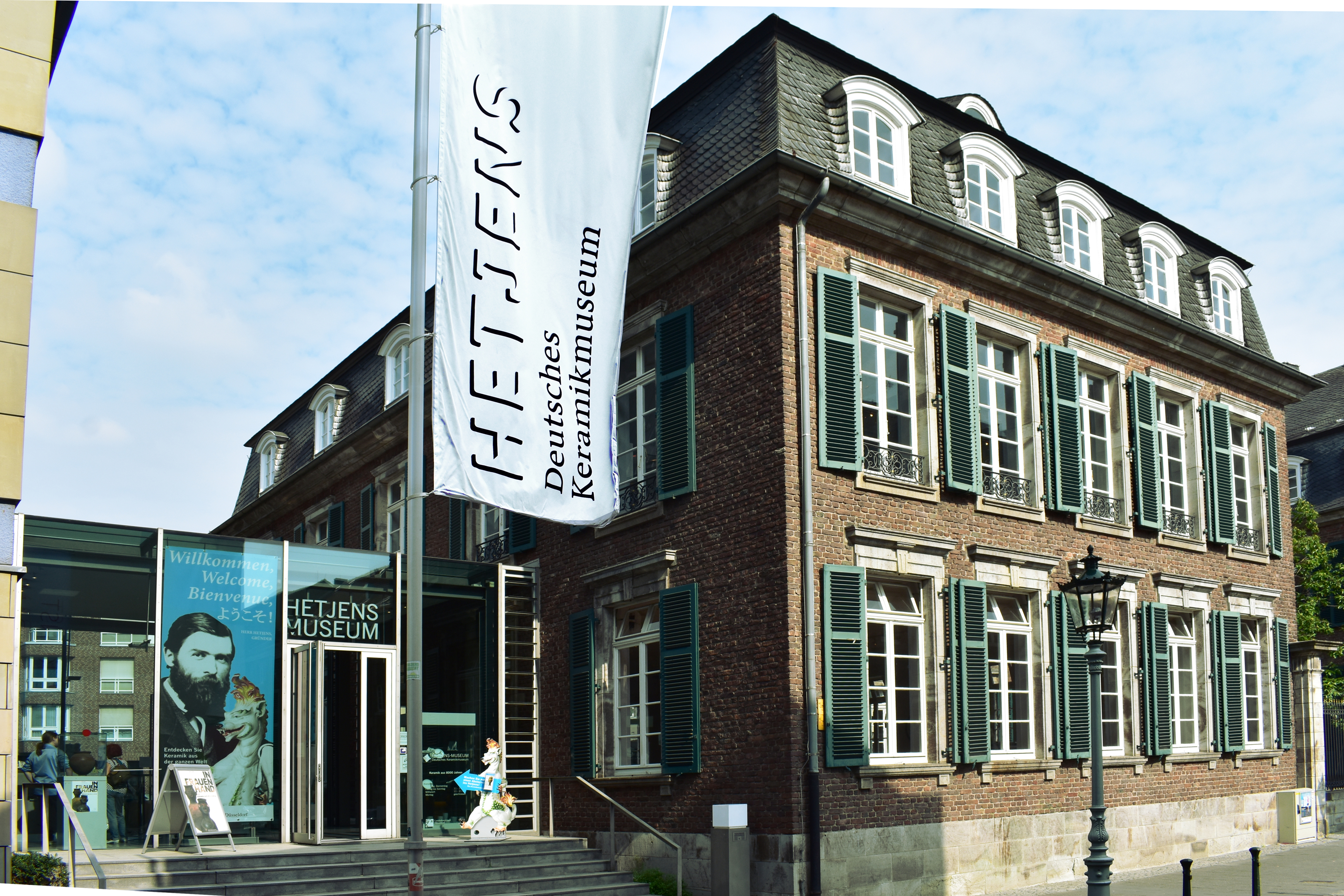 Eingangsbereich des Hetjens und Palais Nesselrode sowie rechts Kastanienhof des Museums